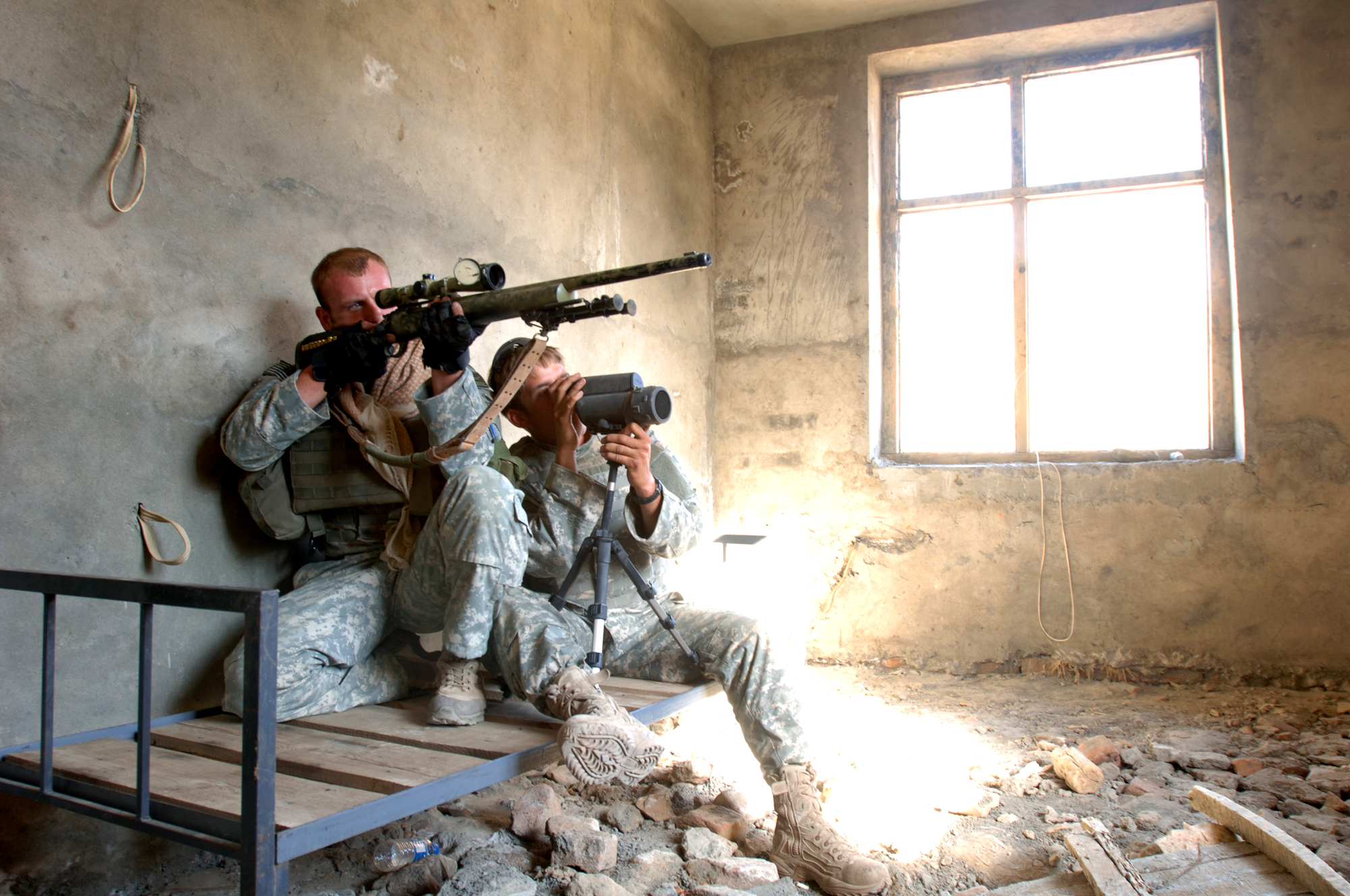 A U.S. Army sniper team from Jalalabad Provincial Reconstruction Team (PRT) scans the horizon after reports of suspicious activity along the hilltops near Dur Baba, Afghanistan, Oct. 19, 2006, after a medical civic action project was conducted by the Jalalabad Provincial Reconstruction Team and the Cooperative Medical Assistance team (Original caption)